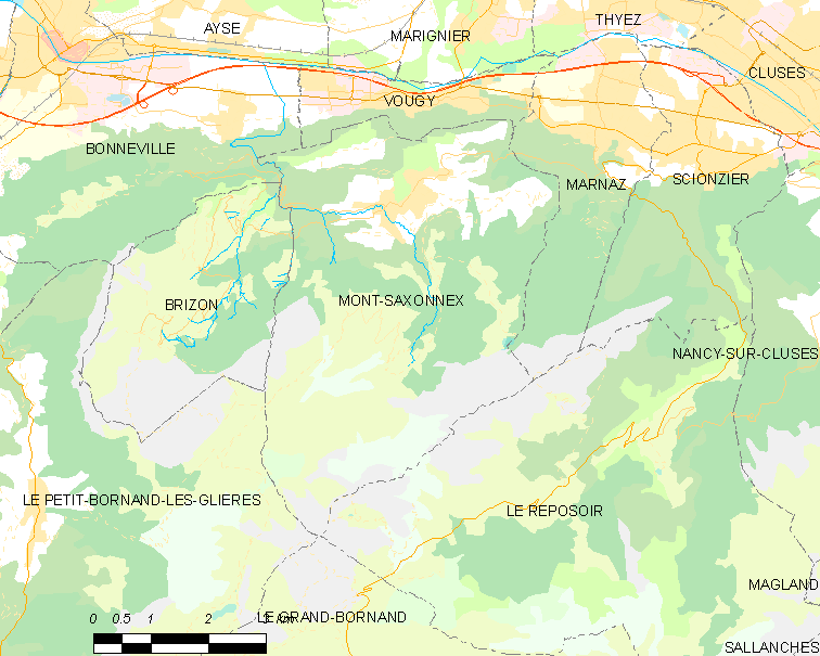 Map of French municipality Mont-Saxonnex